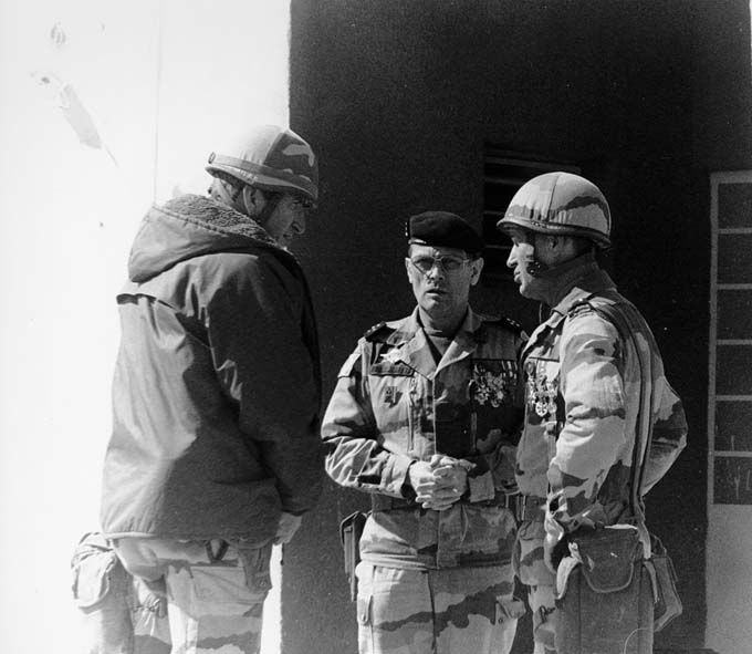 Général de corps d'armée Michel Roquejoffre, commander of opération Daguet, and général de brigade Bernard Janvier, Commander of the French 6th Light Armoured Division, during the formal victory review held by the French forces at As Salman, Iraq, on 10 March 1991.